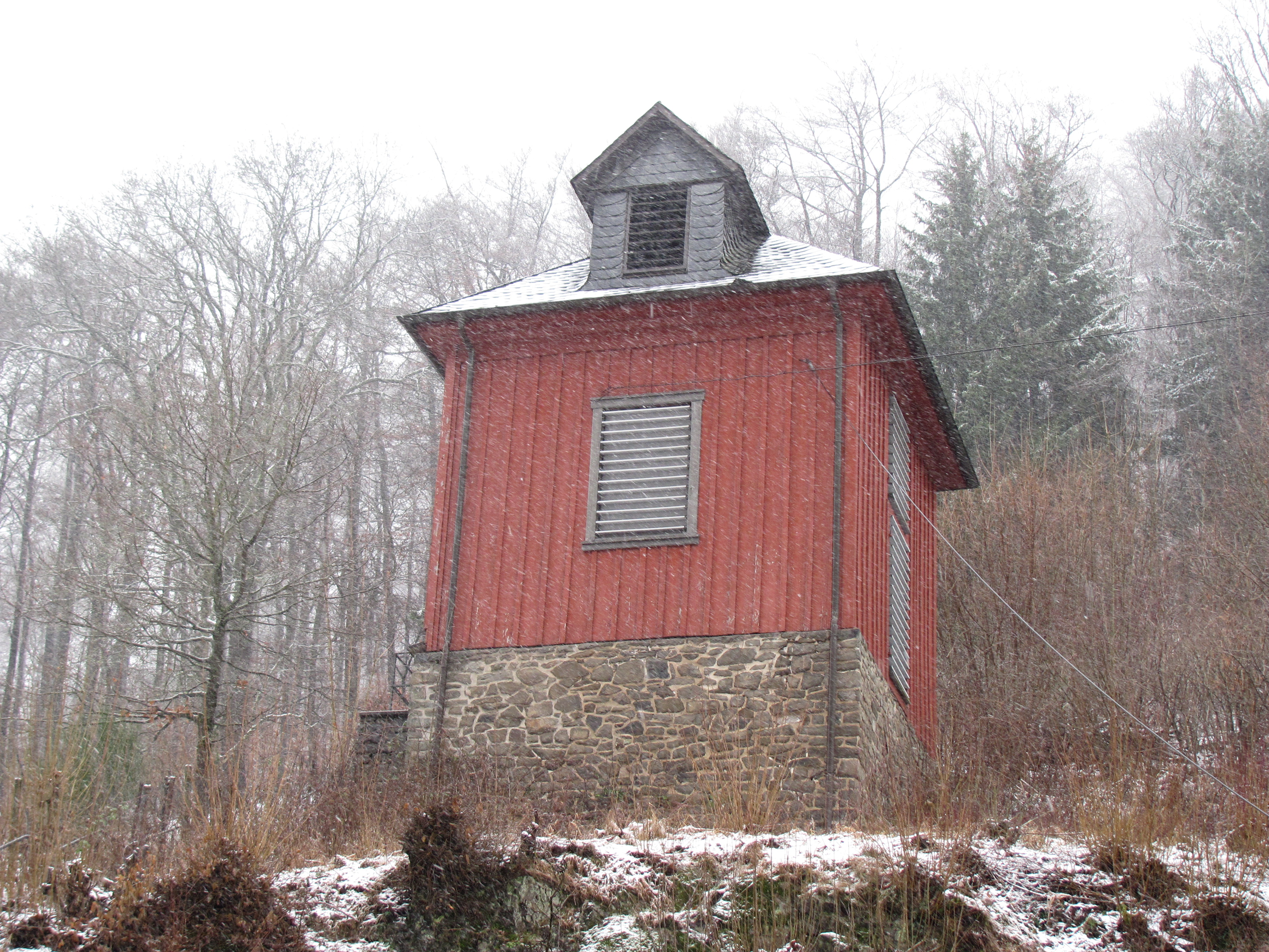 Bell Tower, Lerbach, Harz mountains, Lower Saxony, Germany